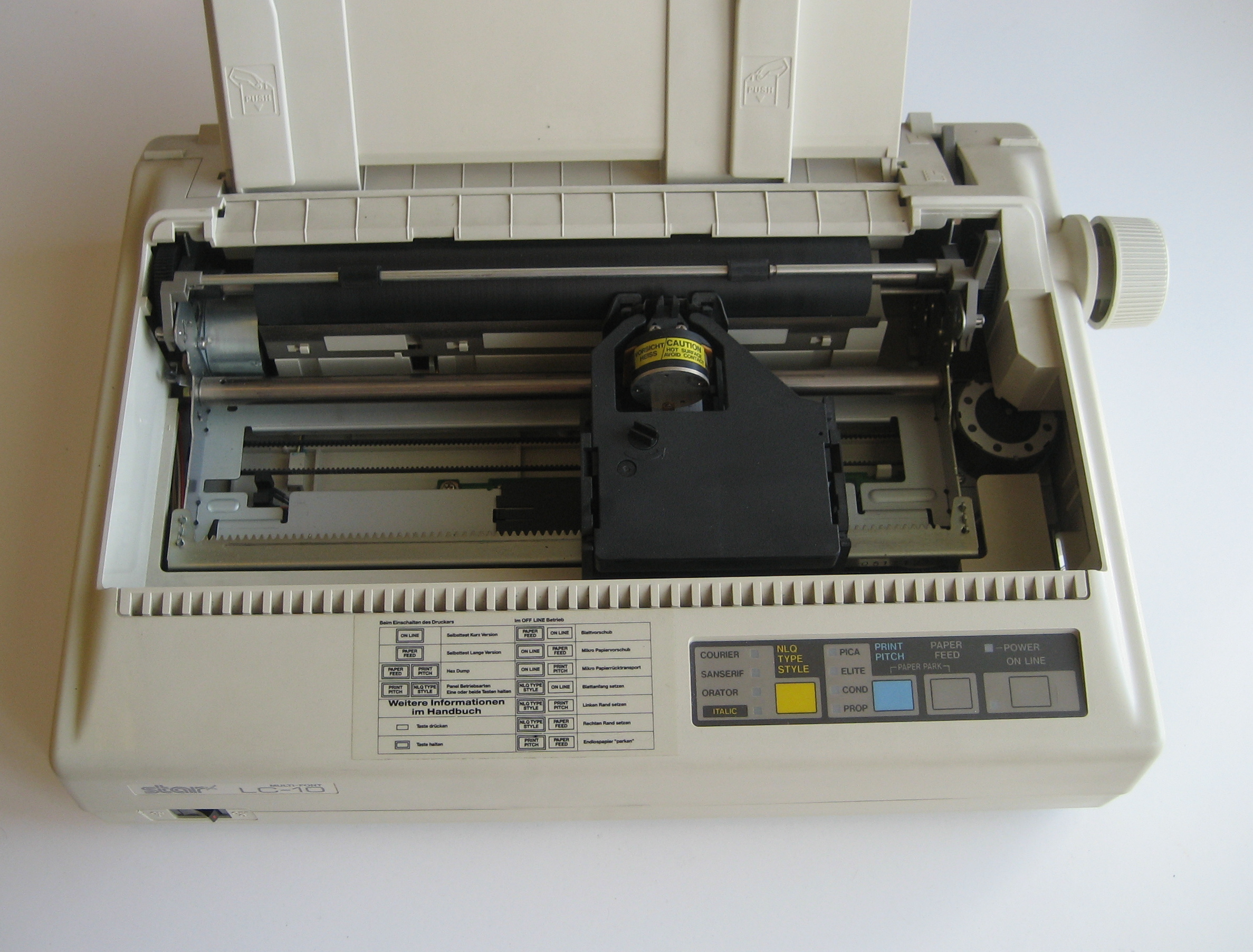 Star LC-10 dot matrix printer, this printer was actual technology in the 1980s